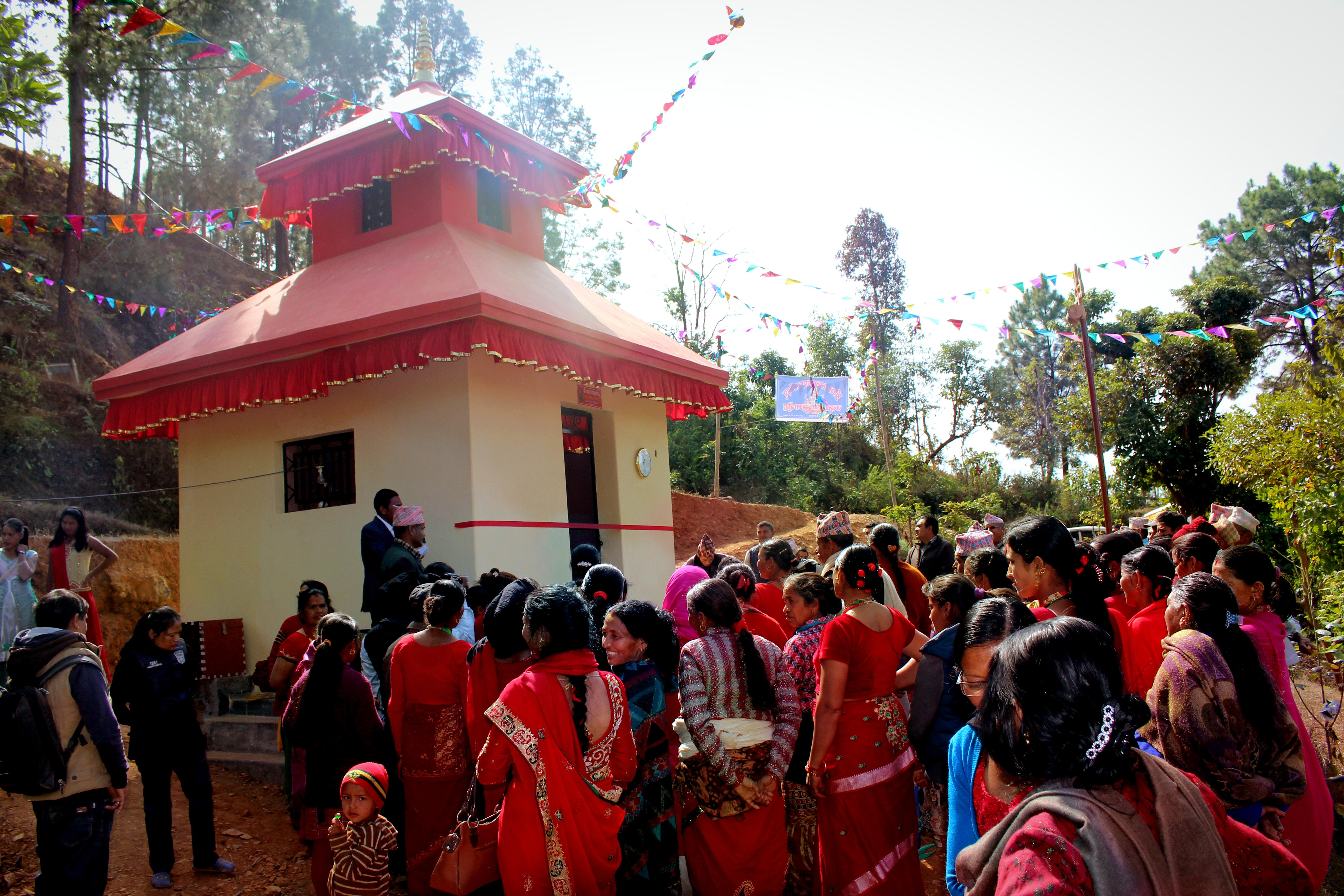 सापिङ सिद्धि गणेश मन्दिर राम्चे, सापिङ-१, काभ्रेपलान्चोक स्थापित २०७२ Saping Siddhi Ganesh Temple Ramche, Saping-1, Kabhrepalanchok Est. 2016. Saping, Nepal.